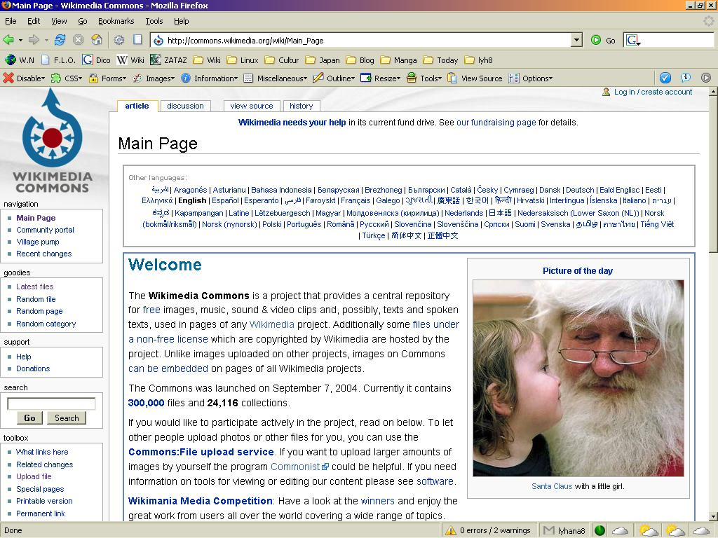 Screenshot of the Wikimedia Commons homepage displayed in Mozilla Firefox indicating the availability of exactly 300,000 files on 24 December 2005